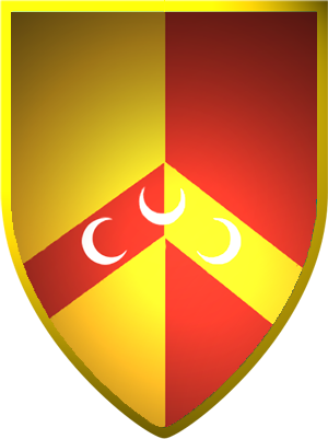 Coat of arms of Zlatonosovići noble family